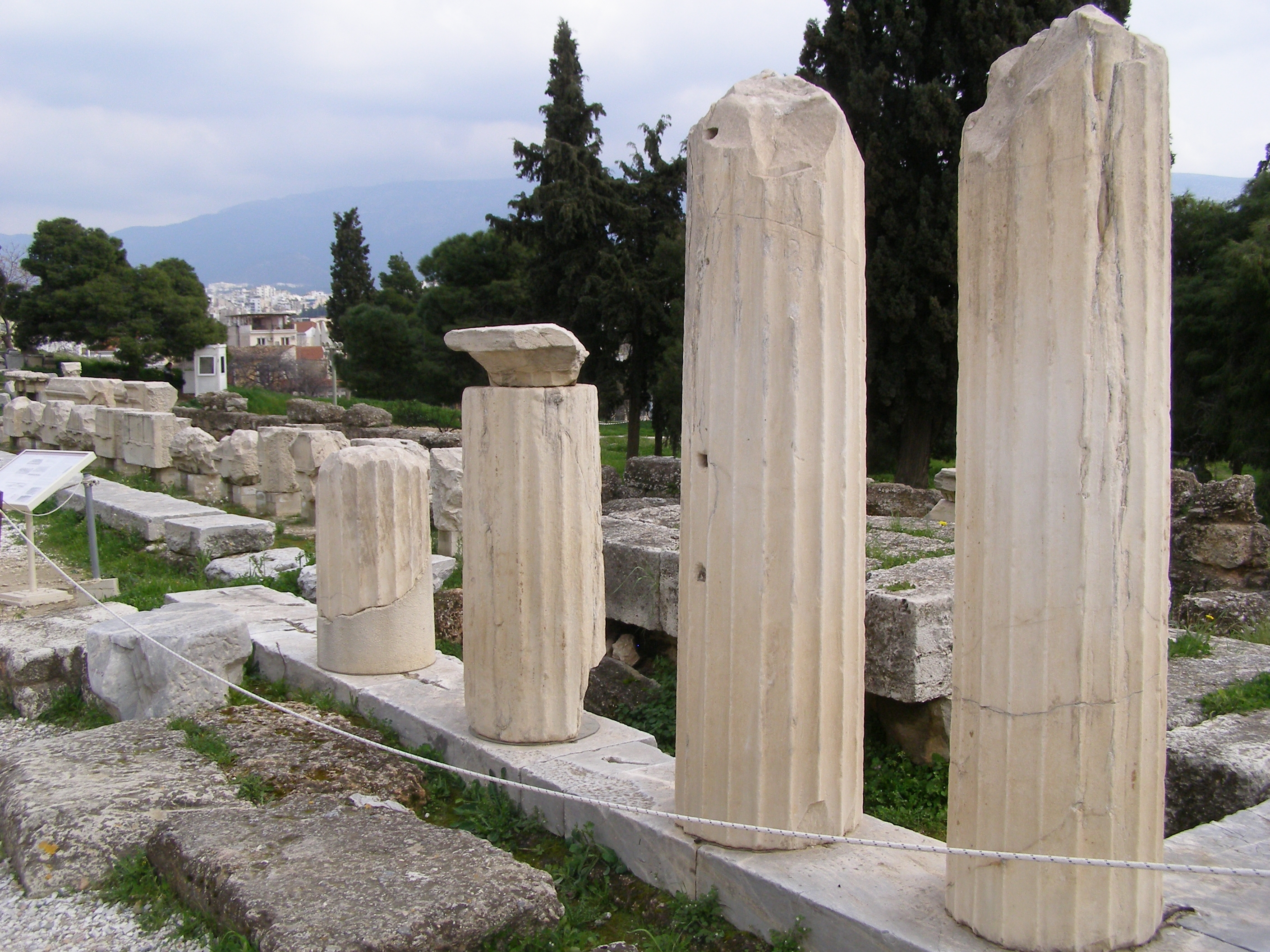 Athens - Theatre of Dionysus